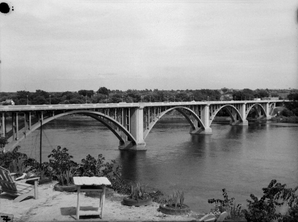 We see the Pie-IX bridge between Laval and Montreal North.